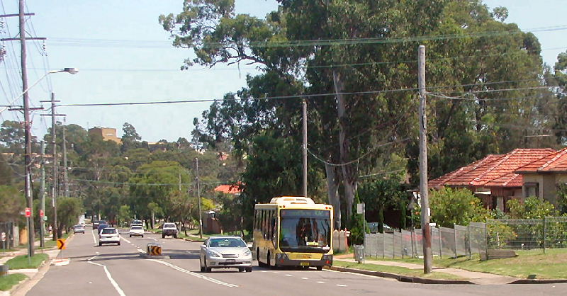 Leabons Lane, Seven Hills, New South Wales, looking north-east from outside the Fire Station (qv) towards Blacktown. Image created and edited by me on 21st January 2006 and placed by me in the public domain